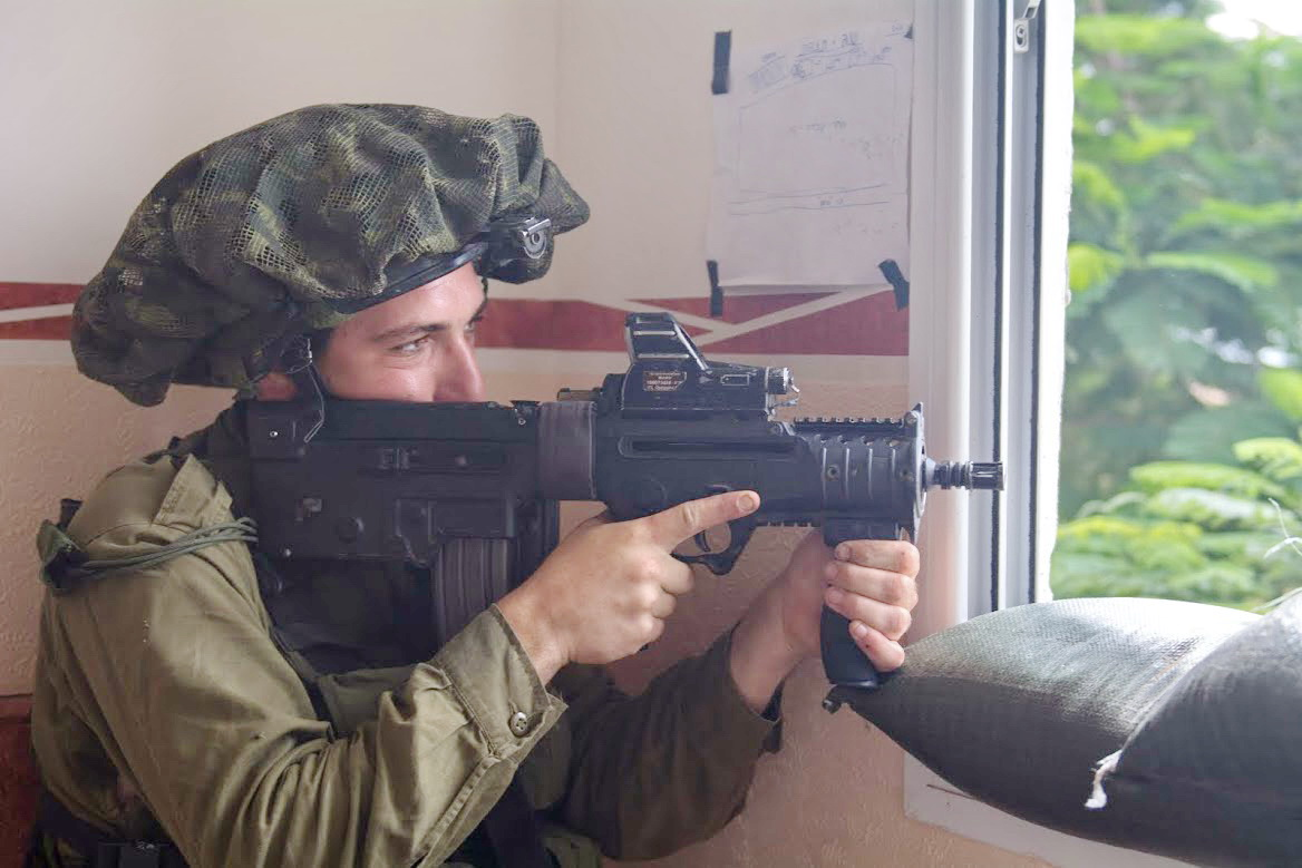 Our soldiers continue to search Gaza for Hamas tunnels and other terror infrastructure. For more updates: The Israel Defense Forces Facebook The Israel Defense Forces blog Follow us on Twitter